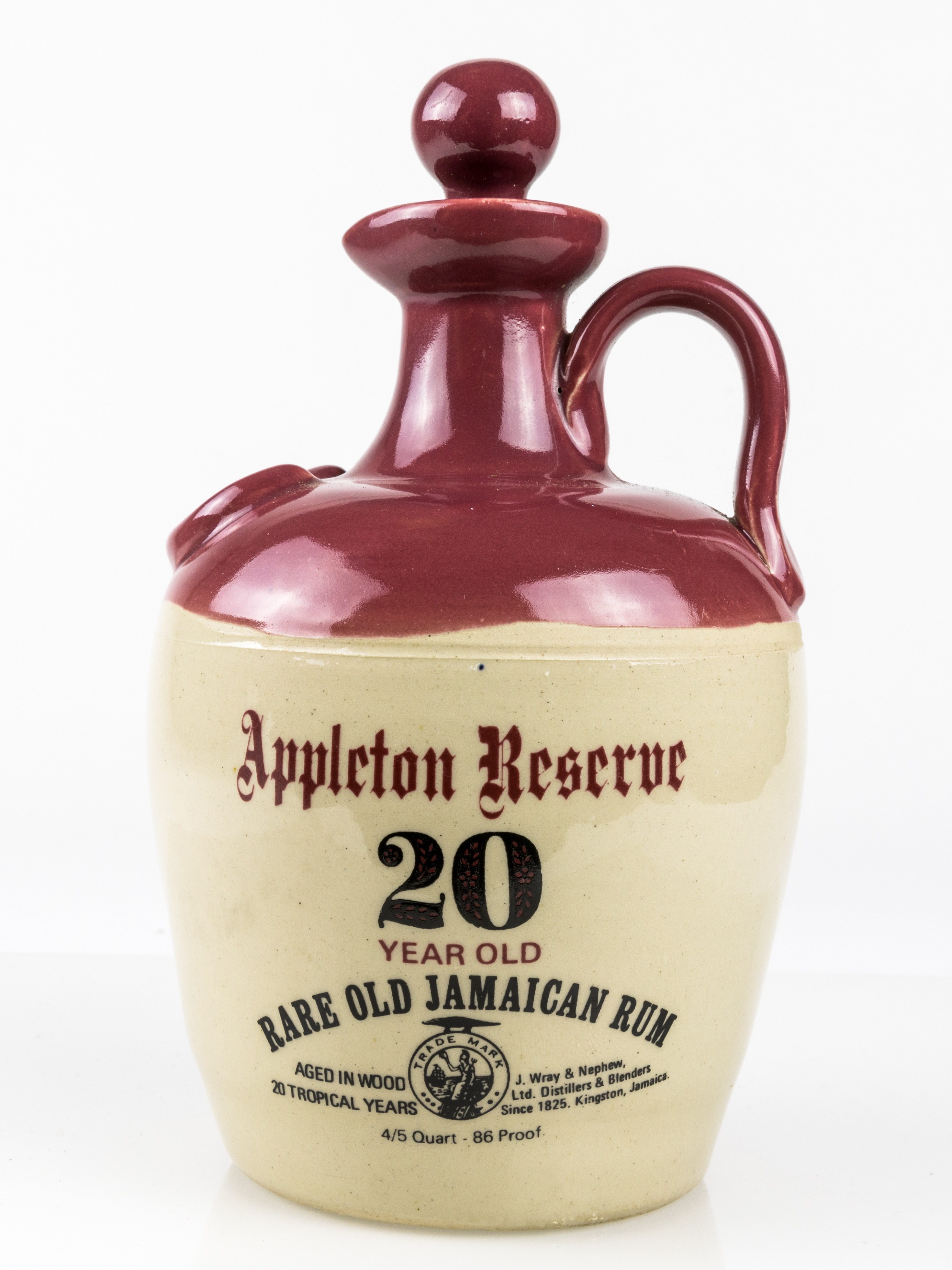 Appleton Reserve 20 years old